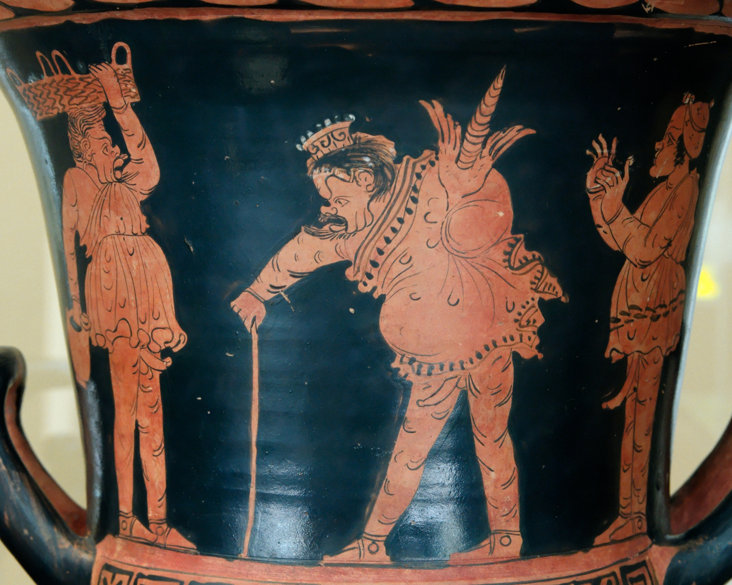 Phlyax scene: Zeus (middle) walking with a cane and holding a thunderbolt in his left hand while an aulos-player (right) marks the rythm; on the left, a bystander with a basket on his head. Campanian red-figure calyx-krater, 380–360 BC.